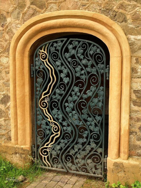 Door to well room, Clock Tower, North Malvern. This fine door fronts the original well room built by Charles Morris in the 1830's, now at the base of a clock tower built in 1901. See 3963 and 906493.